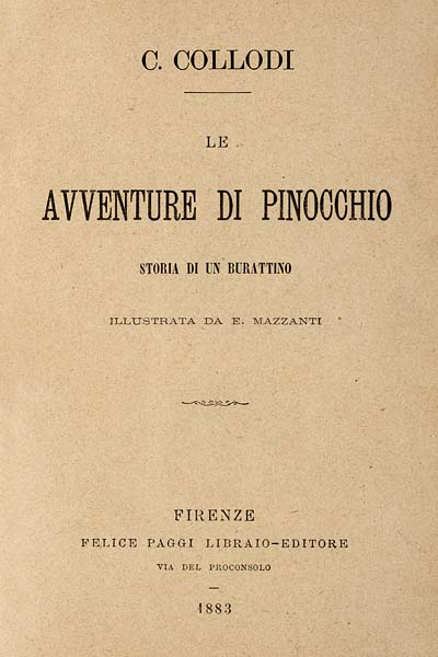 first page of the book Pinocchio by Carlo Collodi, Felice Paggi libraio editore Firenze 1883